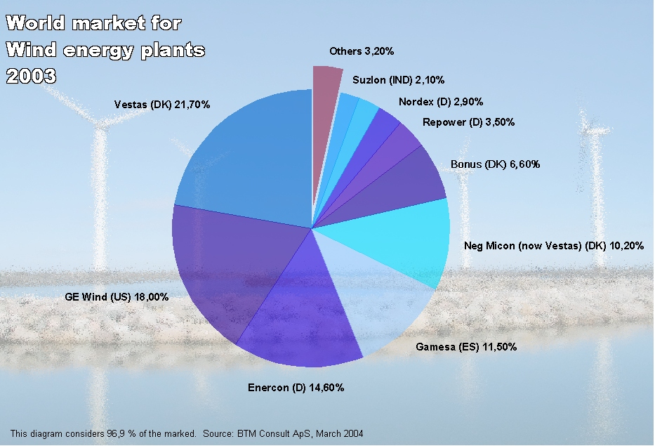 World market for wind energy plants in 2003